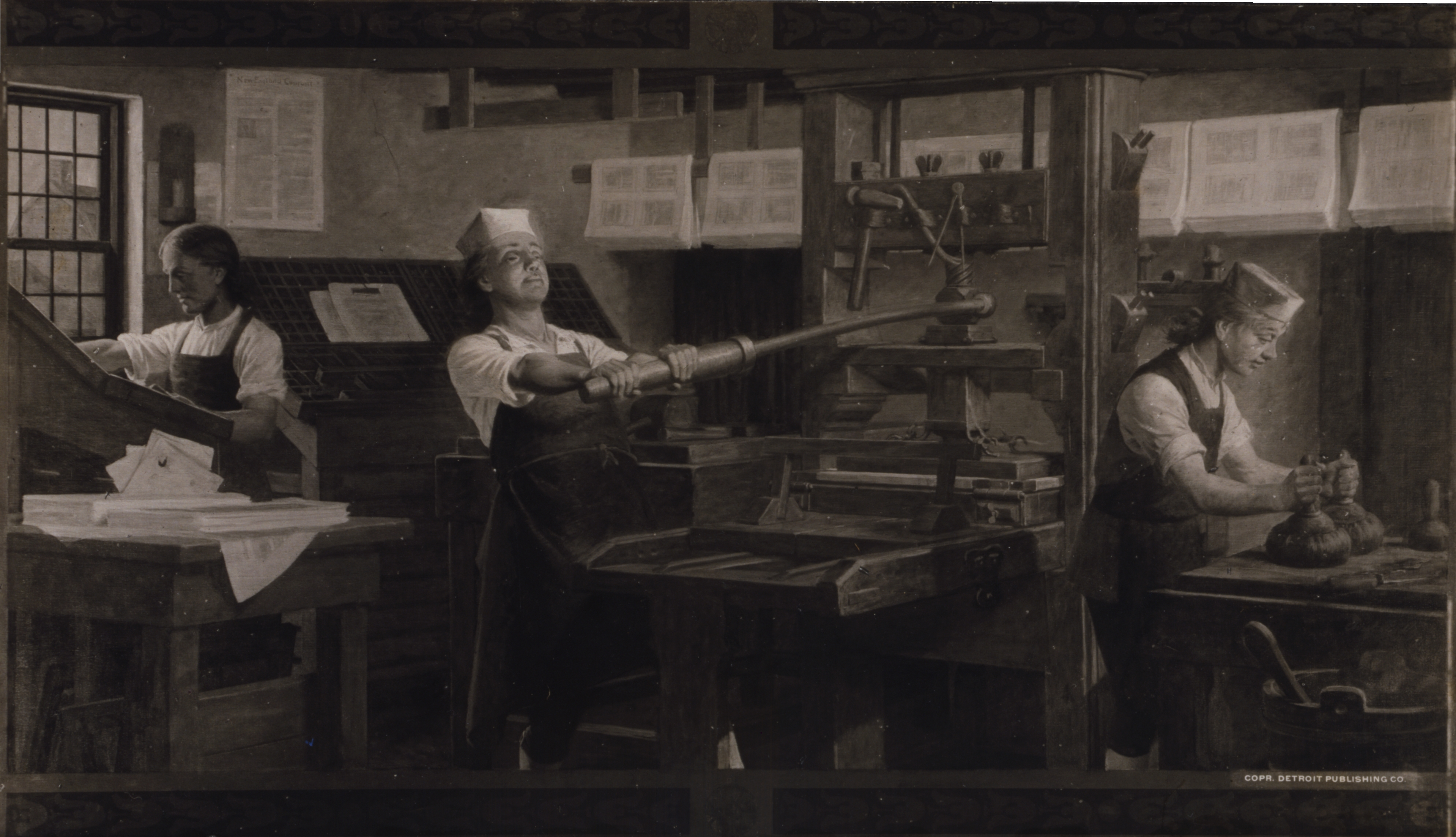 Reproduction of a Charles Mills painting by the Detroit Publishing Company. Depicts W:Benjamin Franklin at work on a printing press.